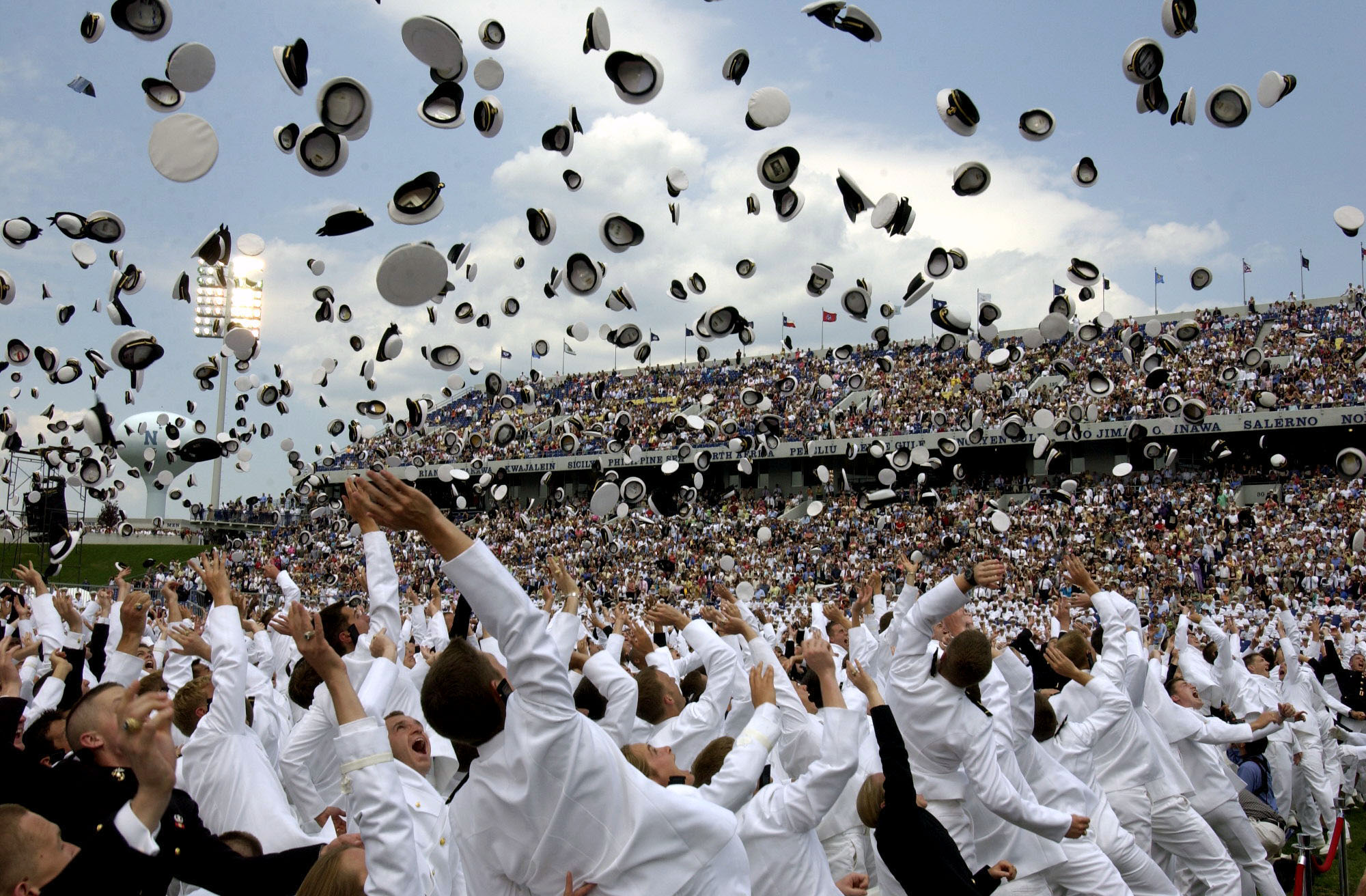 Annapolis, Md. (May 27, 2005) - Newly commissioned officers celebrate their new positions by throwing their Midshipmen covers into the air as part of the U.S. Naval Academy class of 2005 graduation and commissioning ceremony. The "hat toss," now a traditional ending to the ceremony, originated at the Naval Academy in 1912. This "hat toss" has since become a symbolic and visual end to the four-year program. Nine hundred-seventy six Midshipmen graduated from the U.S. Naval Academy and became commissioned officers in the U.S. Military. President George W. Bush delivered the commencement address and personally greeted each graduate during the ceremony. The men and women of the graduating class were sworn into the Navy as Ensigns or into the Marine Corps as Second Lieutenants. U.S. Navy photo by Photographer's Mate 1st Class Kevin H. Tierney (RELEASED)